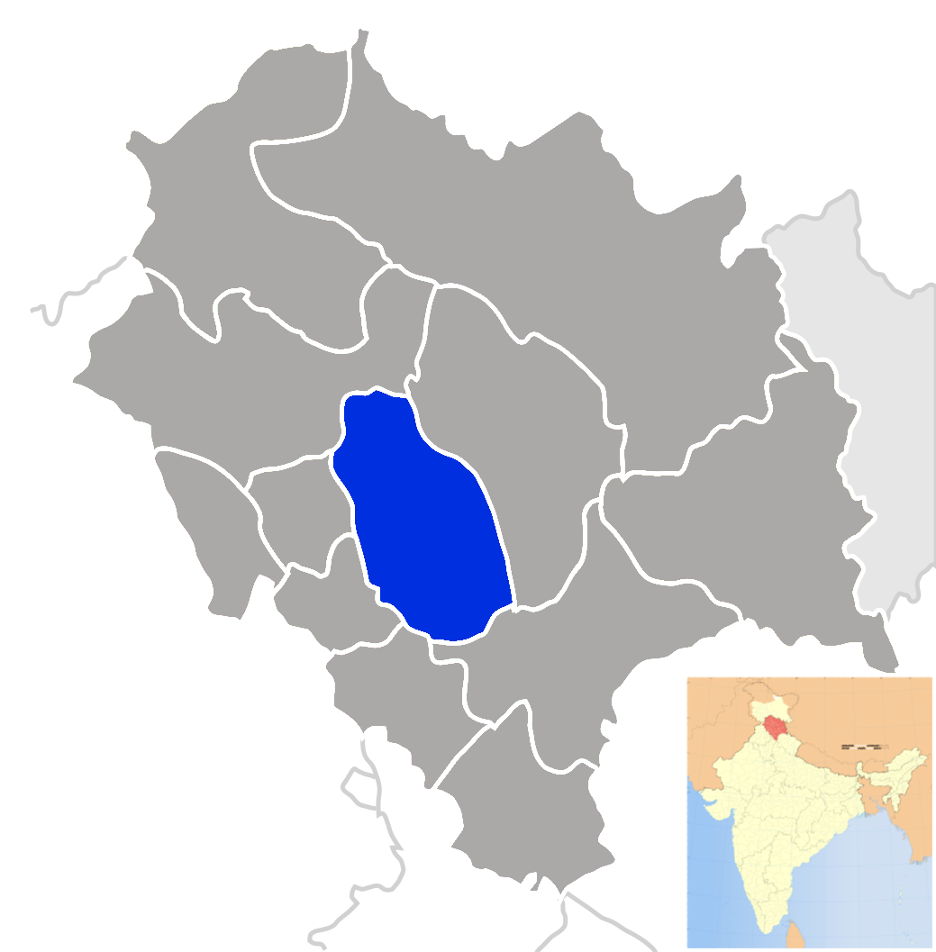 Mandi district of Himachal Pradesh